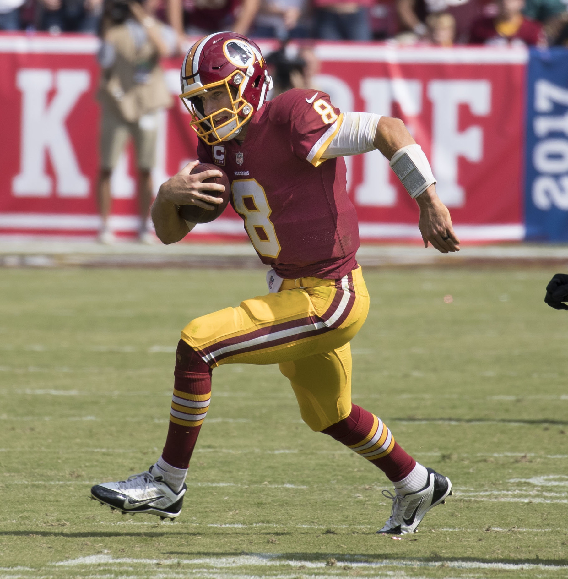 Quarterback Kirk Cousins of the Washington Redskins in action against the Philadelphia Eagles at FedExField on September 10, 2017 in Landover, Maryland.